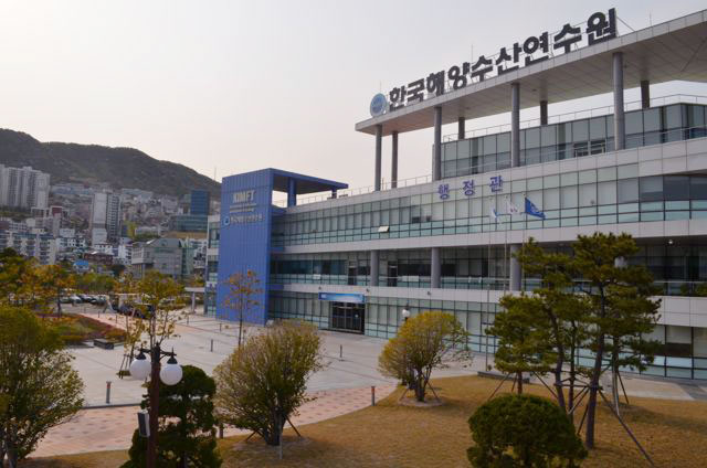 Korean Institute of Maritime and Fisheries Technology (KIMFT) head office located in Busan, South Korea. Photograph from Flickr; author Karine Langlois; license of cc by 2.0.